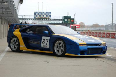 venturi 400 Trophy n° 67